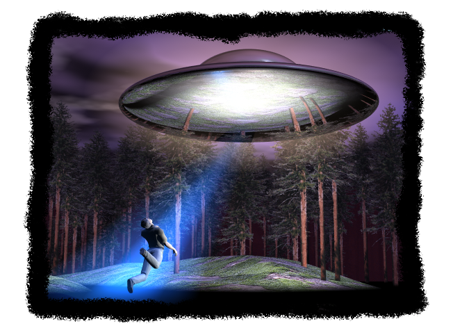 Artistic depiction of an alien abduction (Travis Walton).